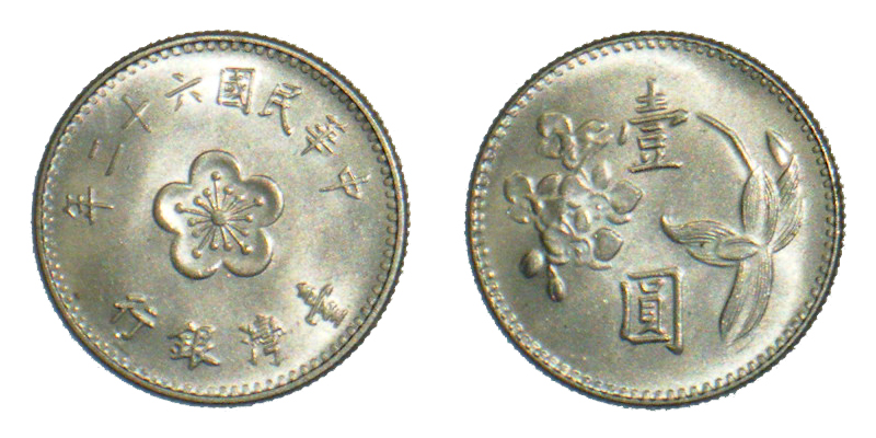 Taiwan-1Yuan-1973